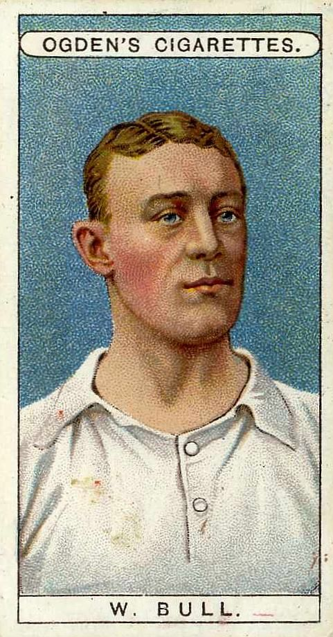 English football player Walter Bull portrayed in a cigarette card by Ogden.